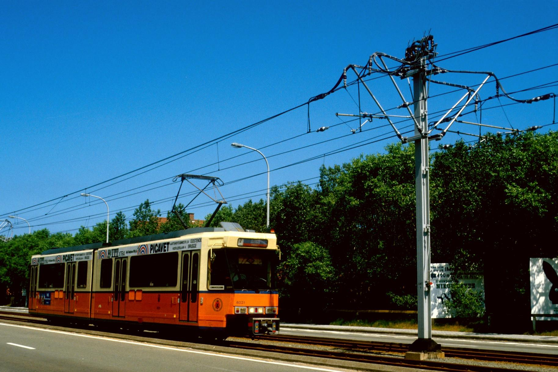 Keywords : SNCV, vicinal railways, rail, tram, electric motor car, type "BN", Nieuwpoort, Belgium